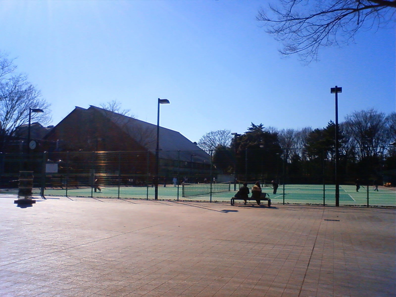 This is the Doho park tennis court, which is located in Ninomiya, Tsukuba, Ibaraki, Japan.